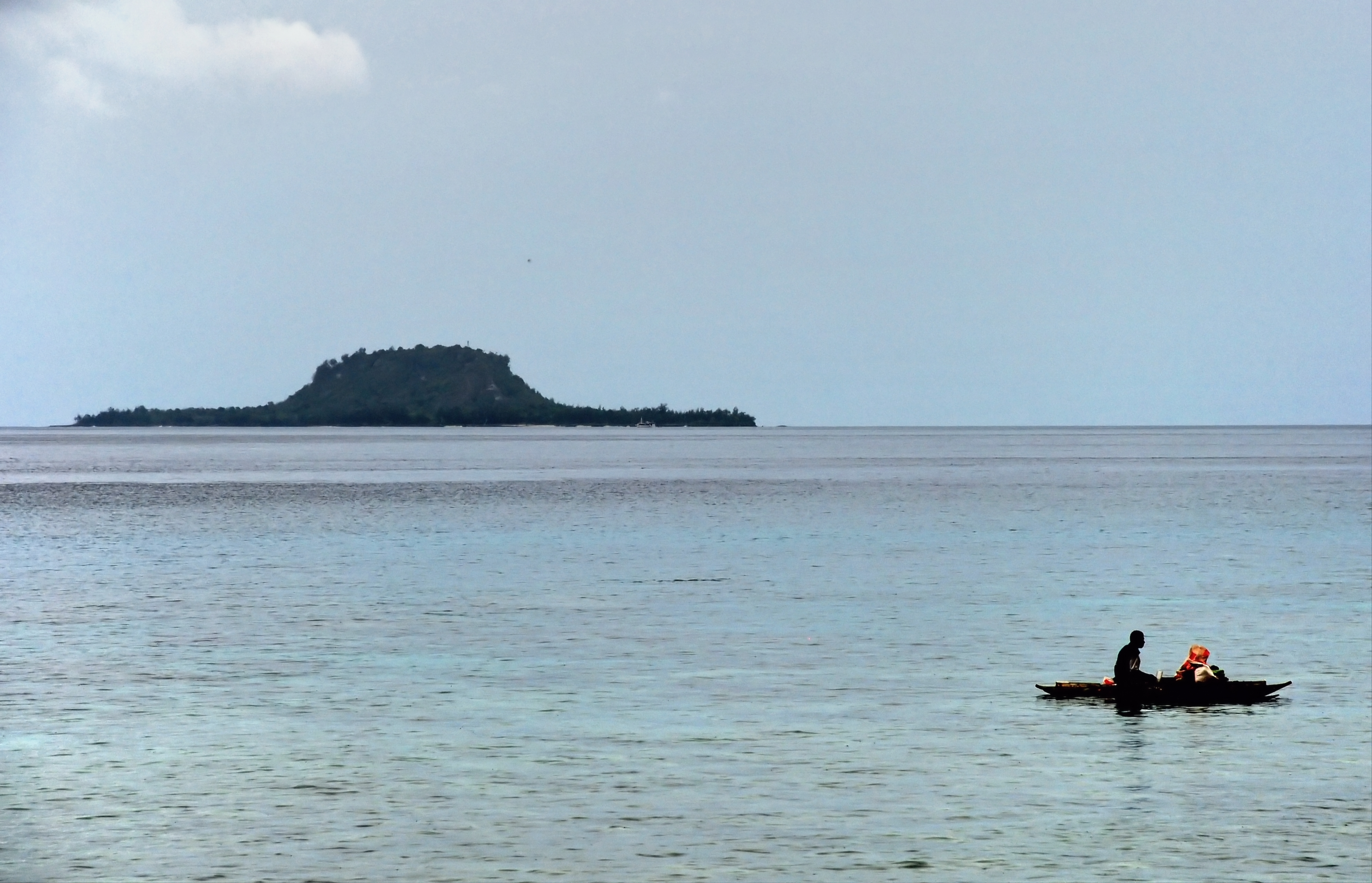 Eretoka (Hat Island). Where Roy Mata'a mass burial took place